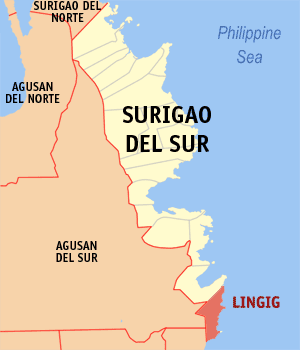 Map of the Surigao del Sur showing the location of Lingig